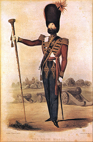 UniformDrumMajor